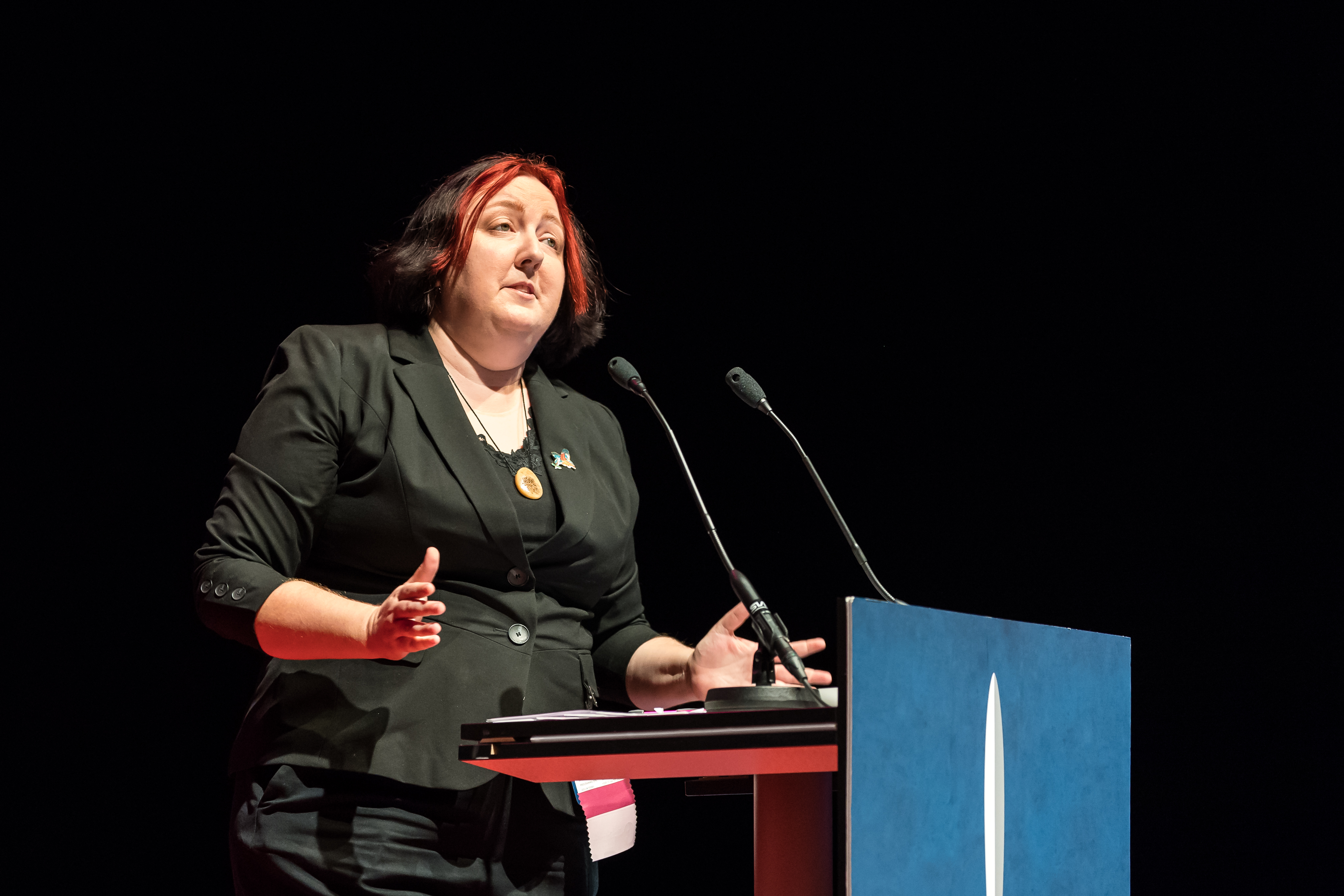 Ursula Vernon, winner of the Best Novelette Hugo at the Hugo Award Ceremony 2017, Worldcon in Helsinki.